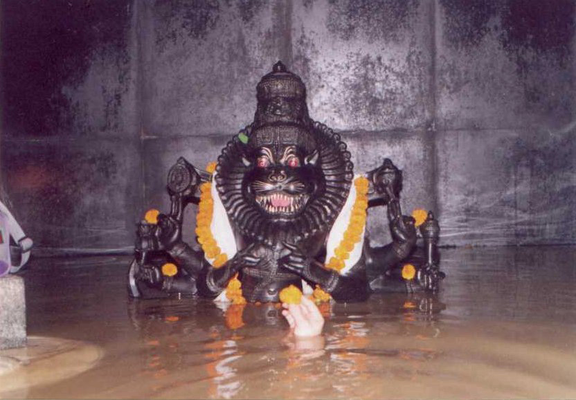 Narasimha being offered a flower (puja) during a flood in Mayapur.